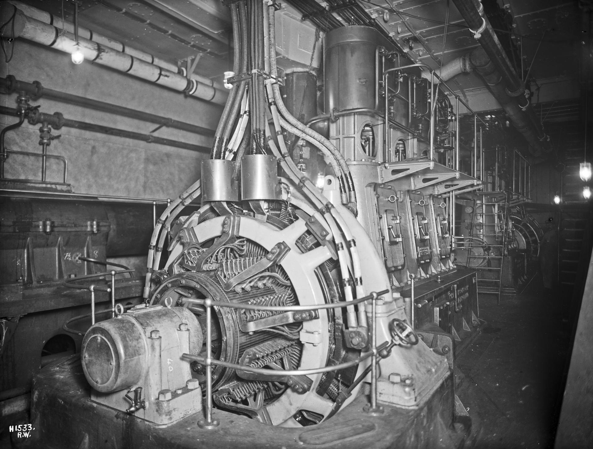 Olympic electrical power plant.